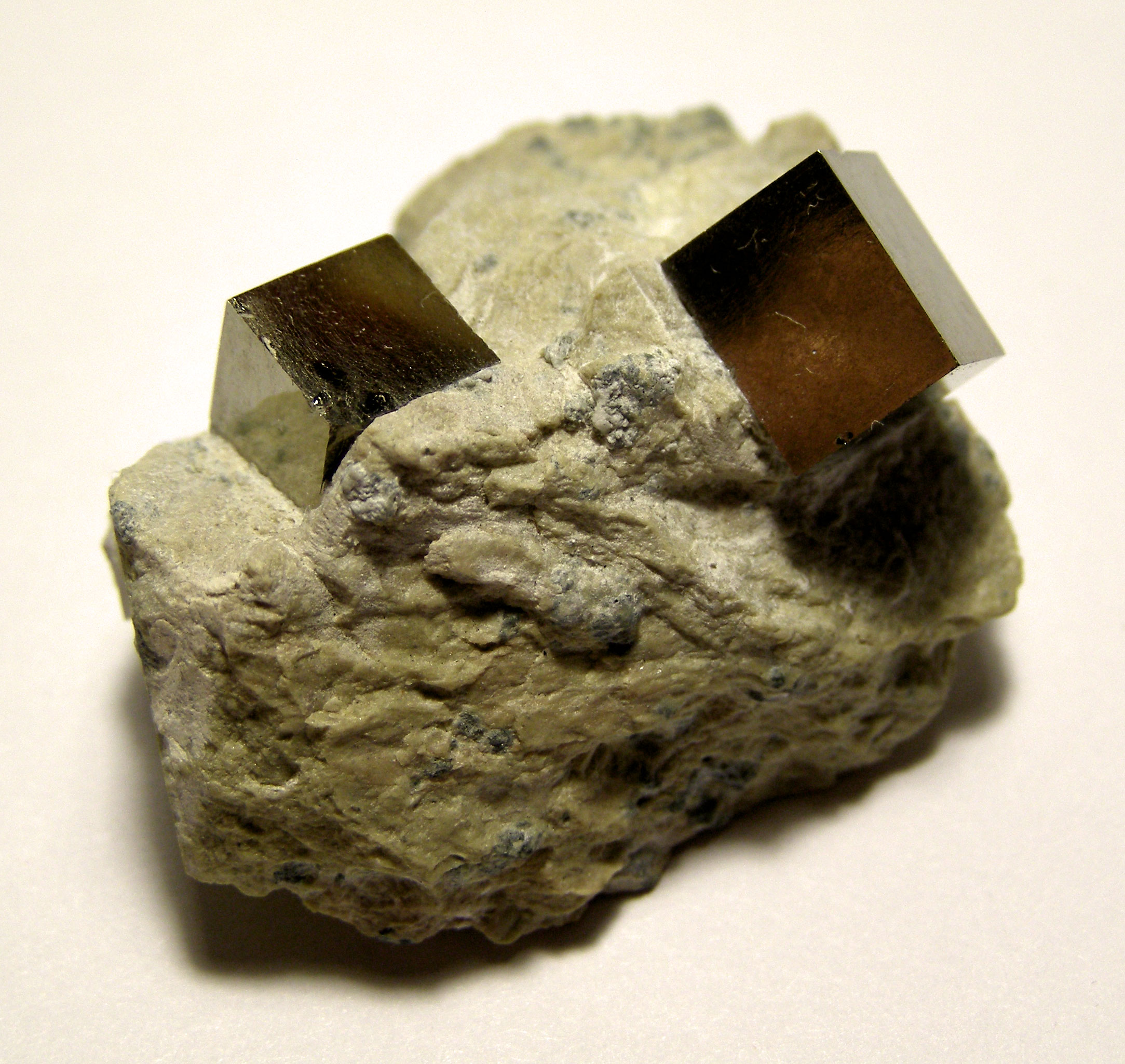 cubic pyrite crystals